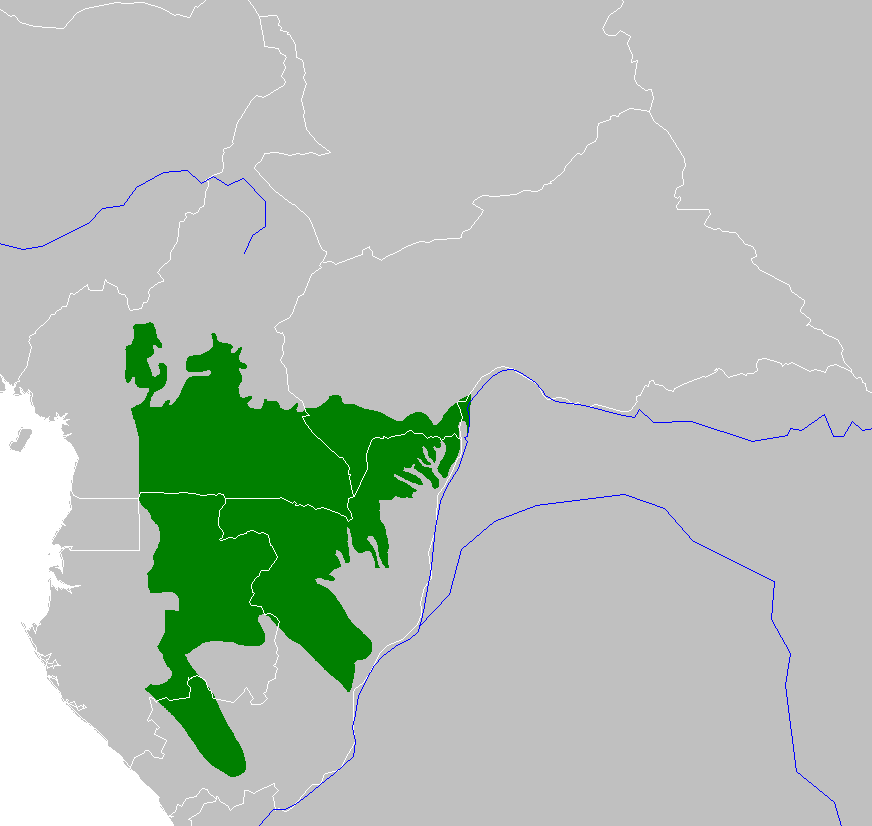 Northwestern Congolian lowland forests ecoregion map — an African rainforest in west-central Africa.